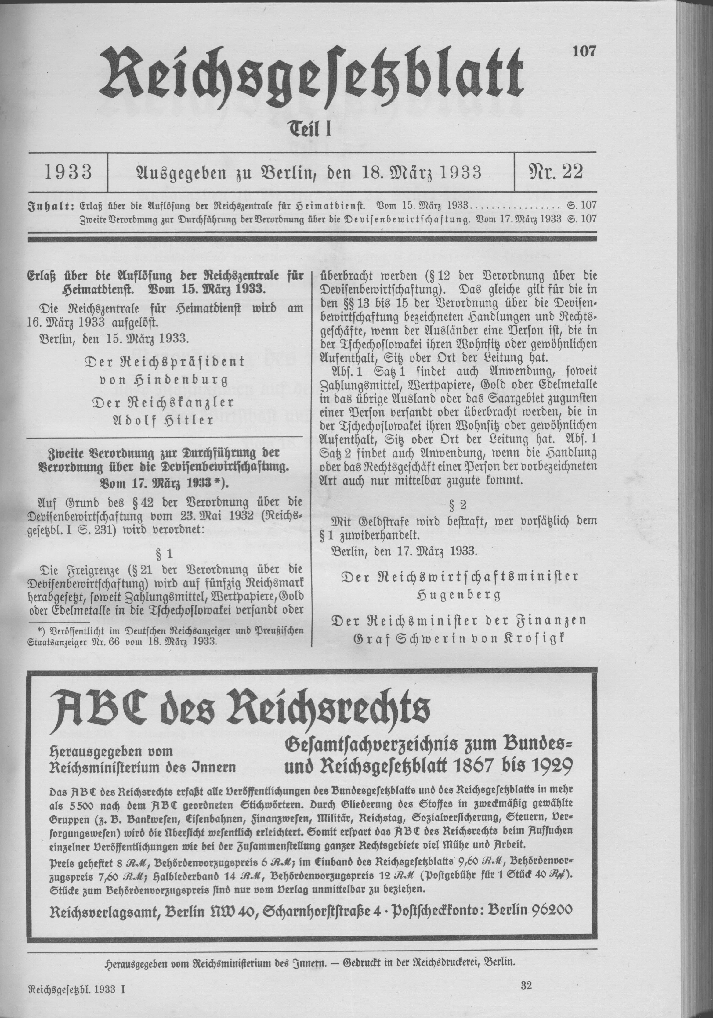 Scan from the Imperial Law Gazette of Germany, 1933, part 1